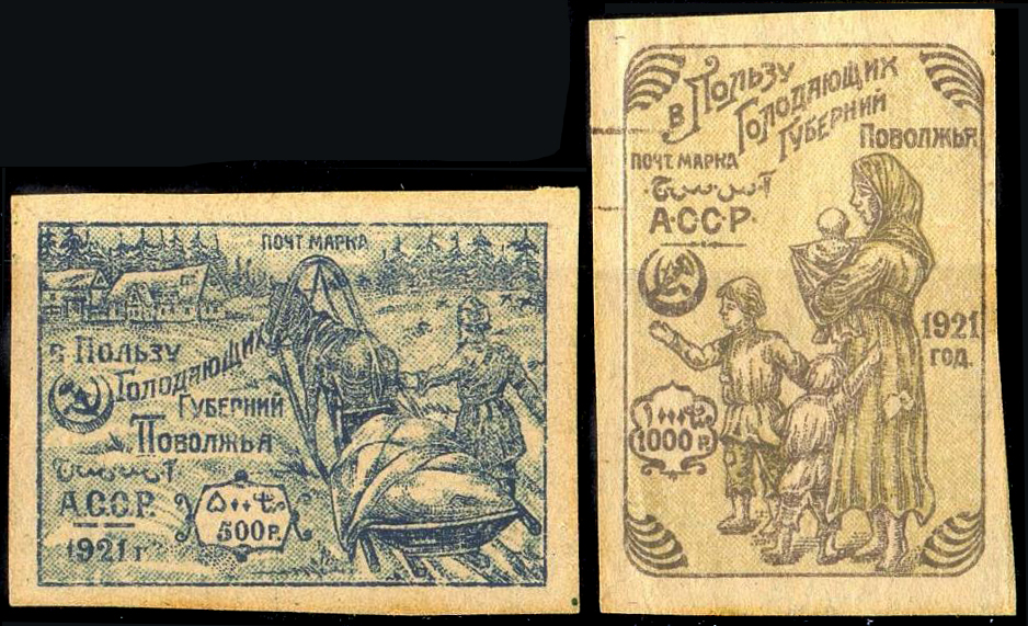 Semi-postal stamps of Azerbaijan SSR. 500 & 1000 rub.